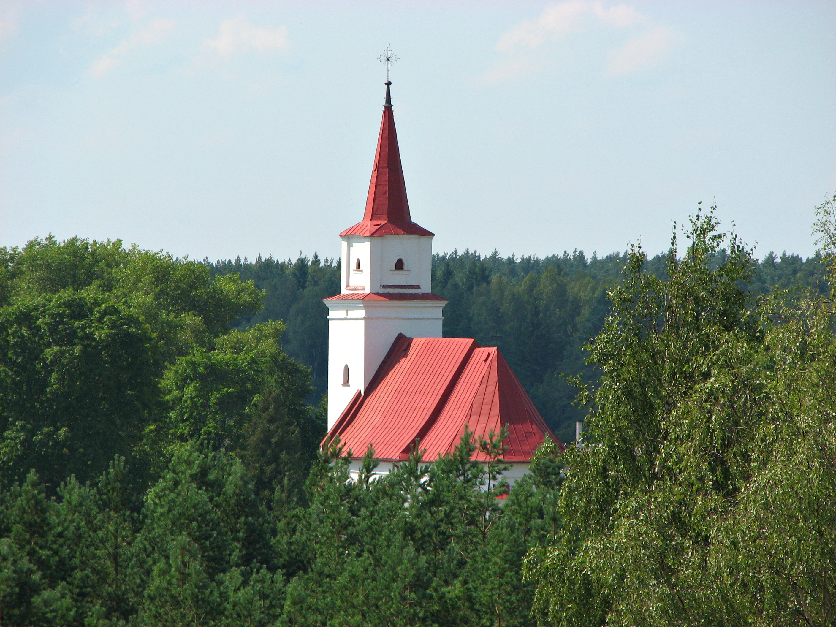 Roman Catholic (formerly Lutheran) Church in Elerne, Tabore parish, Daugavpils municipality, Latvia.